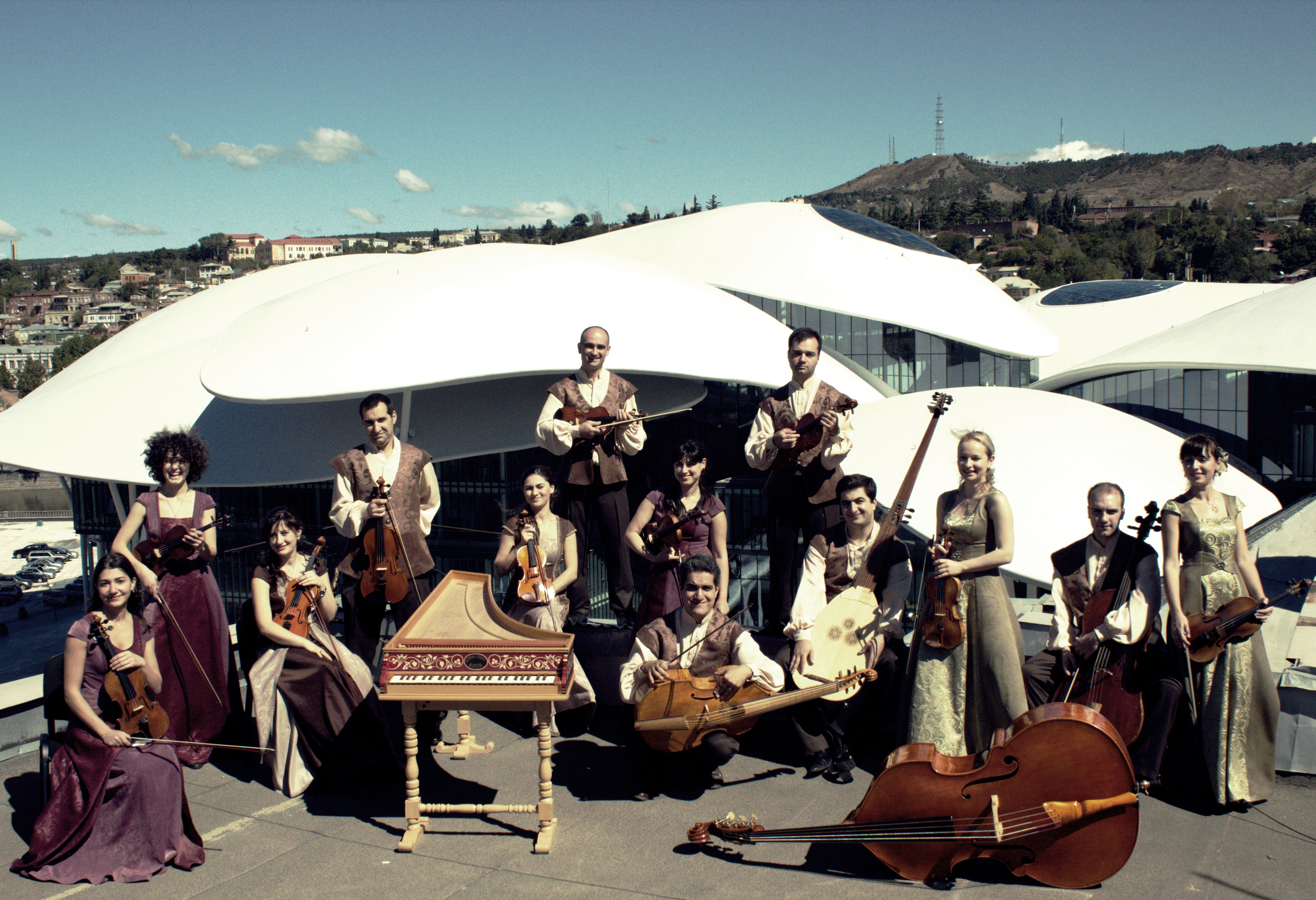 Georgian Sinfonietta as the Baroque Orchestra